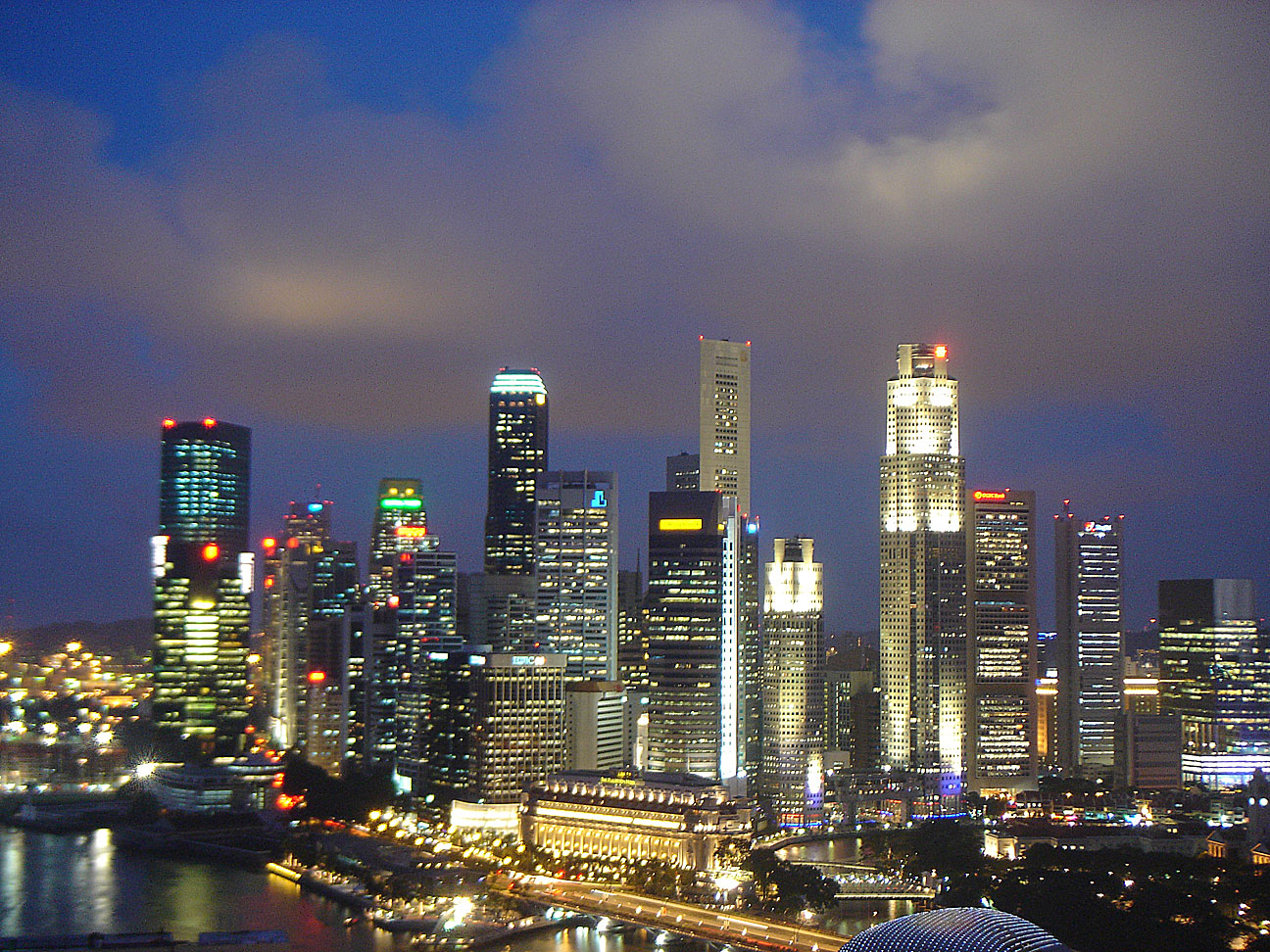 Description: Singapore city skyline at dusk as viewed from the Pan Pacific Singapore. Source: Self-made Location: Singapore Date: 15/09/2006 19:23 Photographer/Painter: Huaiwei